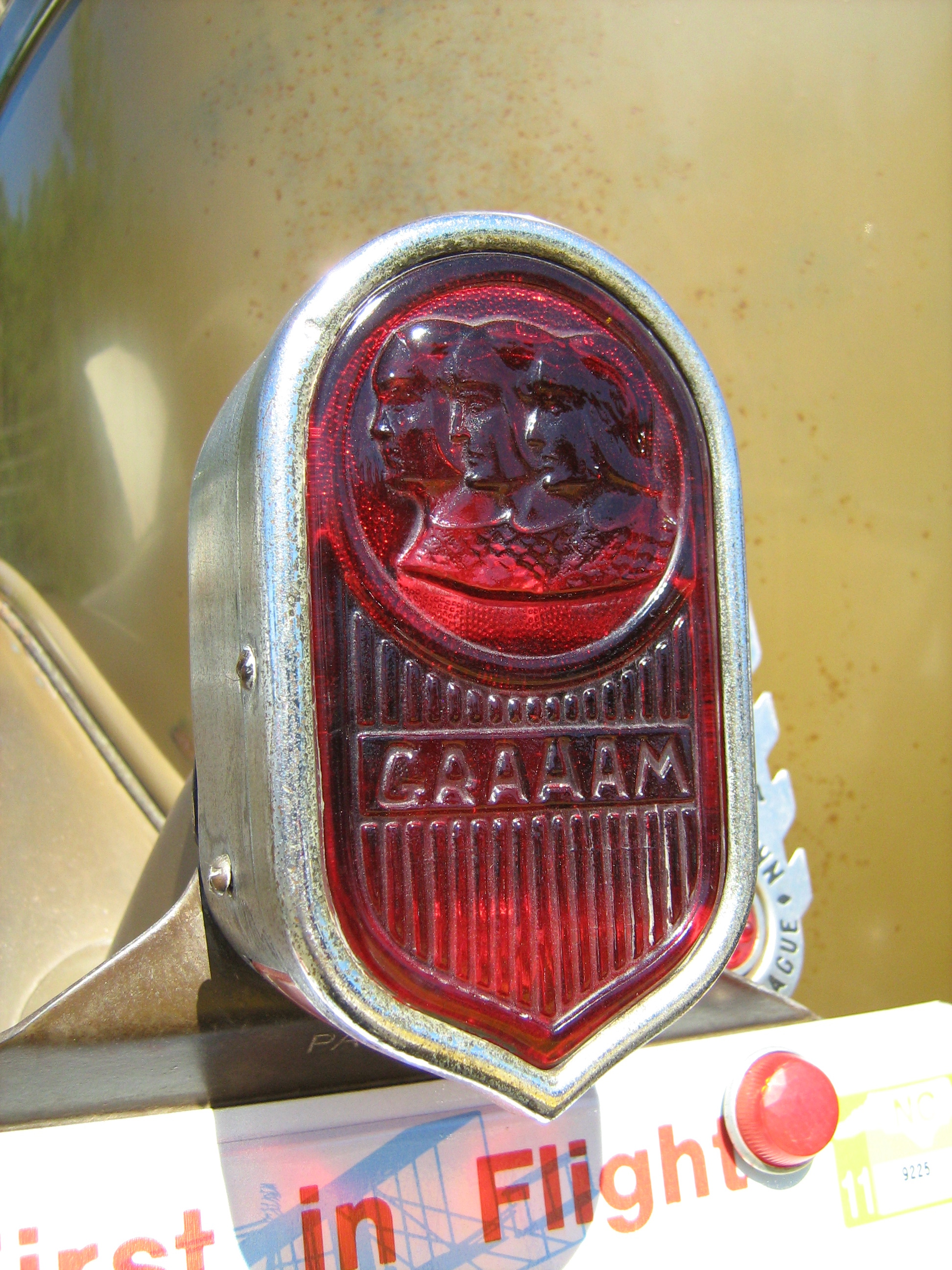 1930 Graham sedan. Tail lamp detail on this car. Picture taken at a local car show in North Carolina, USA.